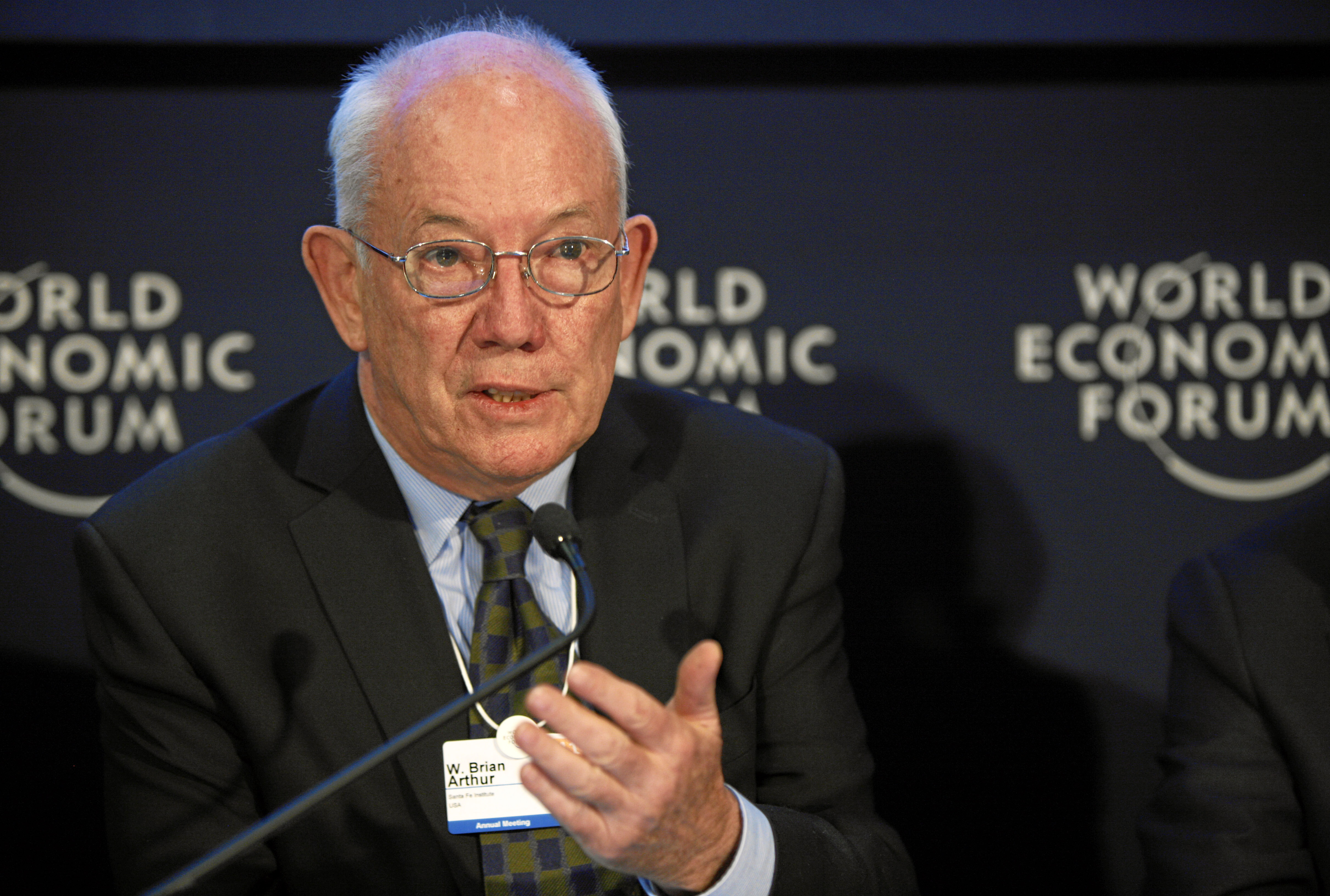 DAVOS/SWITZERLAND, 27JAN11 - W. Brian Arthur, Professor, Santa Fe Institute, USA are captured during the session 'The Unrecoverable Error: How to Respond' at the Annual Meeting 2011 of the World Economic Forum in Davos, Switzerland, January 27, 2011. Copyright by World Economic Forum by Jolanda Flubacher